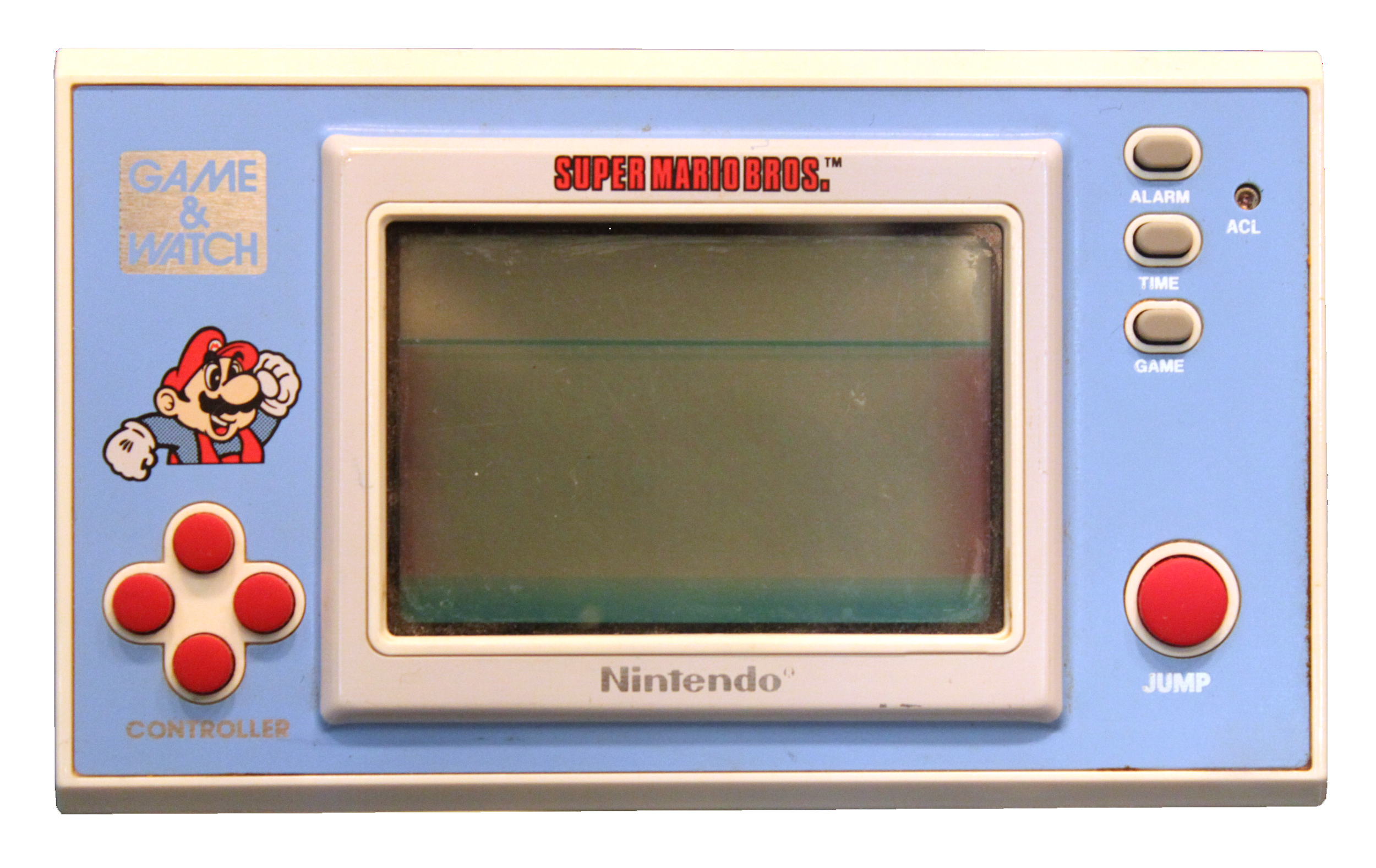 Game & Watch Super Mario Bros.